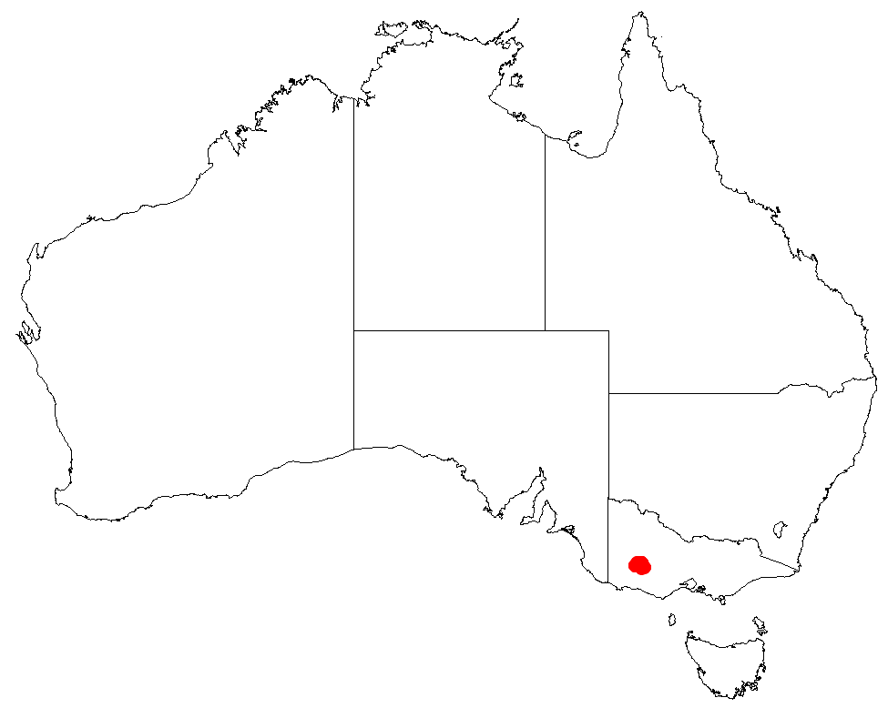 Bossiaea rosmarinifolia Occurrence data downloaded 11 September 2018 from AVH